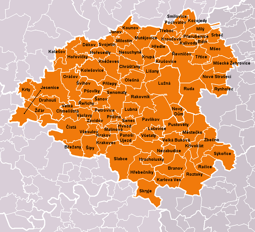 Municipalities of Rakovník District as of January 1, 2010 (83 municipalities in total). This is identical with administrative area of Rakovník as a Municipality with Extended Competence. White lines of variable thickness show boundaries of municipalities, administrative areas, districts and regions.